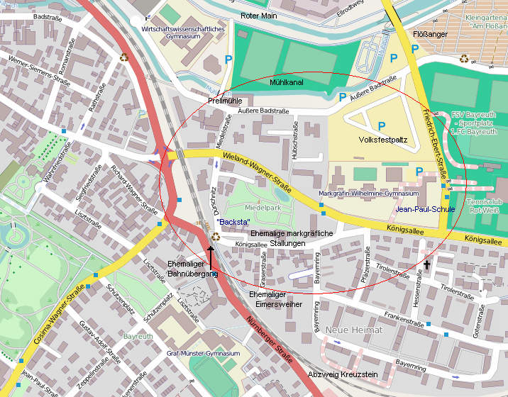 Bayreuth Dürschnitz Map using OpenStreetMap